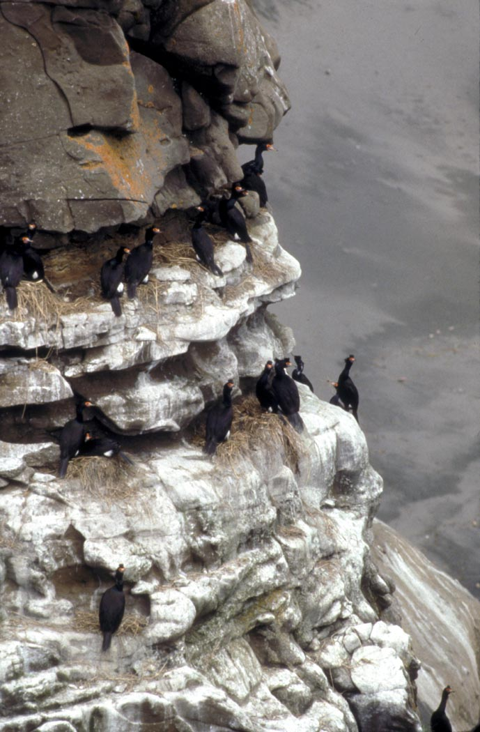 Red-faced cormorant colony, Becharof National Wildlife Refuge. Oil Creek